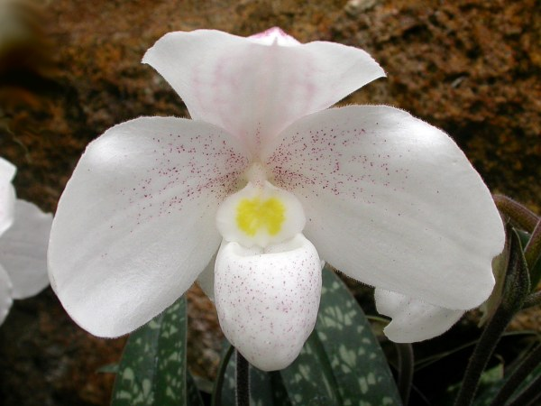 Paphiopedilum